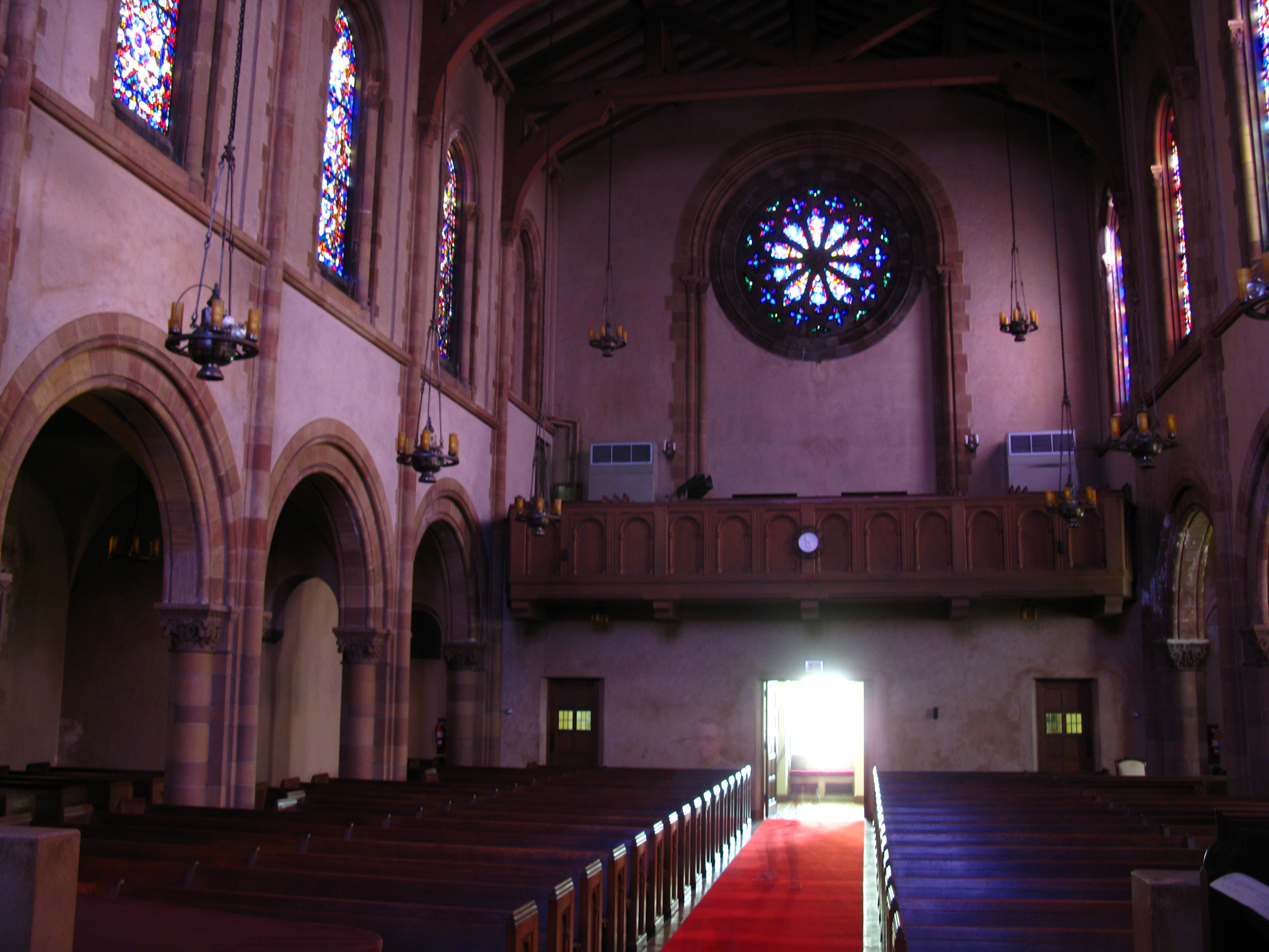 Universalist National Memorial Church located in the Dupont Circle neighborhood of Washington, D.C.